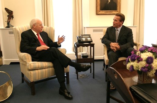 Vice President Dick Cheney meets with Gov. Arnold Schwarzenegger for the first time at the White House. Vice President Dick Cheney meets with California Gov.-elect Arnold Schwarzenegger in the Vice President's West Wing office Oct. 30, 2003. This is the first meeting between Vice President Cheney and Mr. Schwarzenegger since the state's historical recall election Oct. 7, 2003. White House photo by David Bohrer